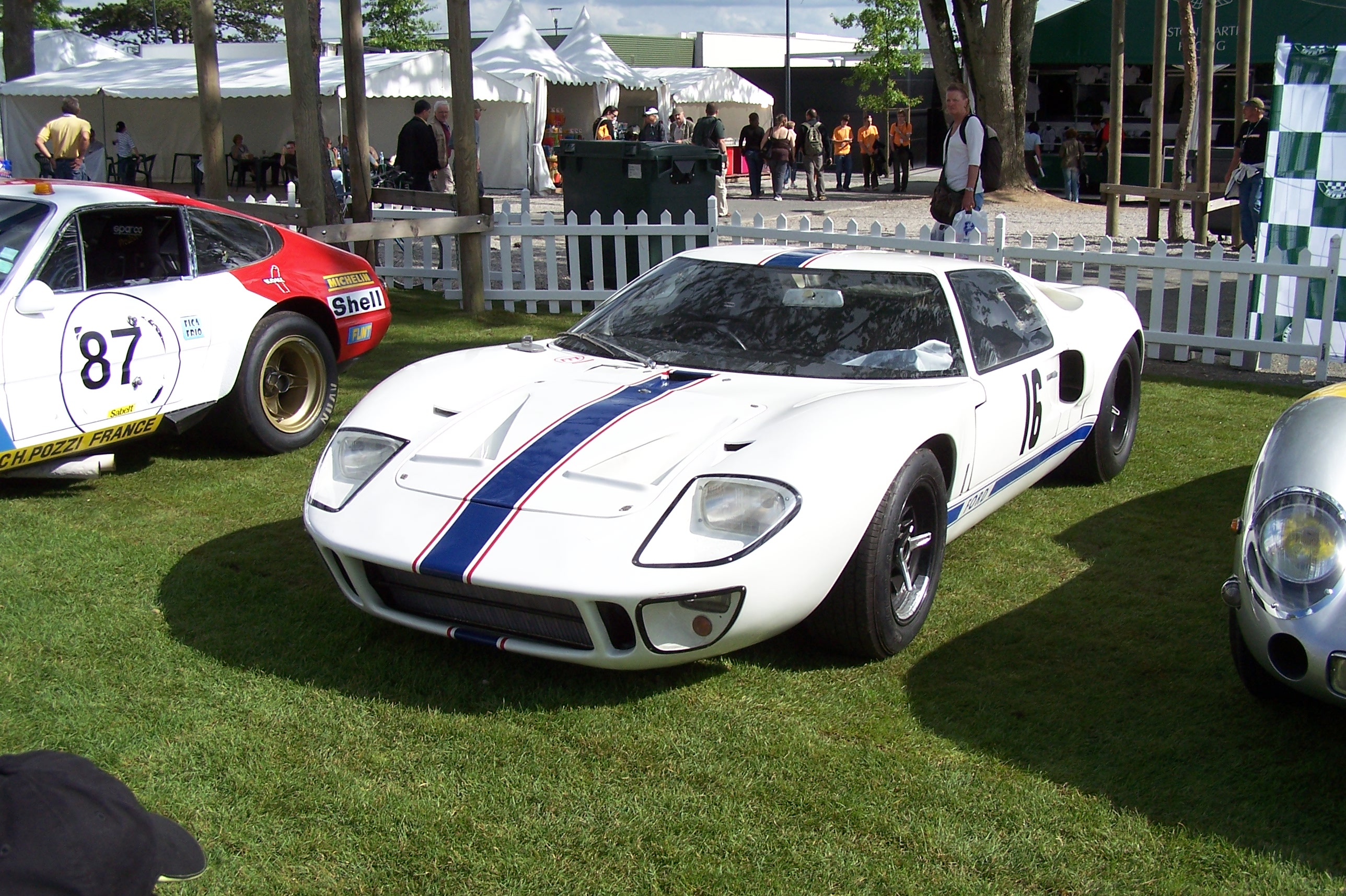 Ford GT 40, photographed in "The Village" within the circuit of Le Mans. If it is the accurate P/1020 chassis car (and not a replica), "n°16" was its number for the 1967 24 Hours of Le Mans, where it did not finish (drivers: Greder/Dumay).